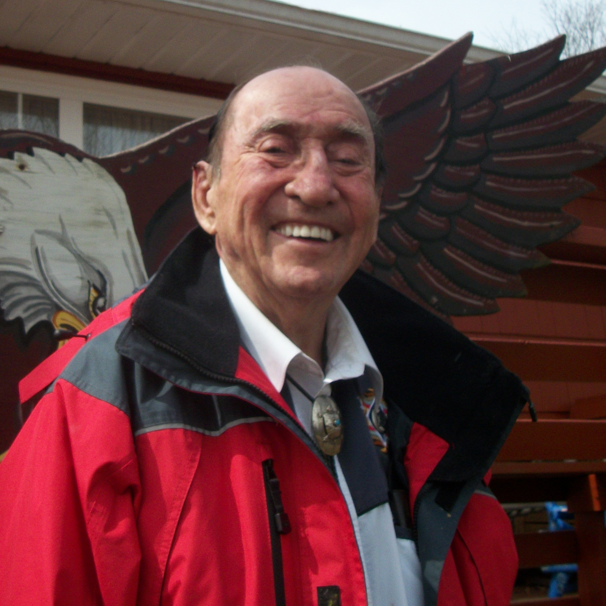 Former chief (1984-2012) of Millbrook First Nation, Nov Scotia, Canada. Photographed with subject's knowledge and permission.